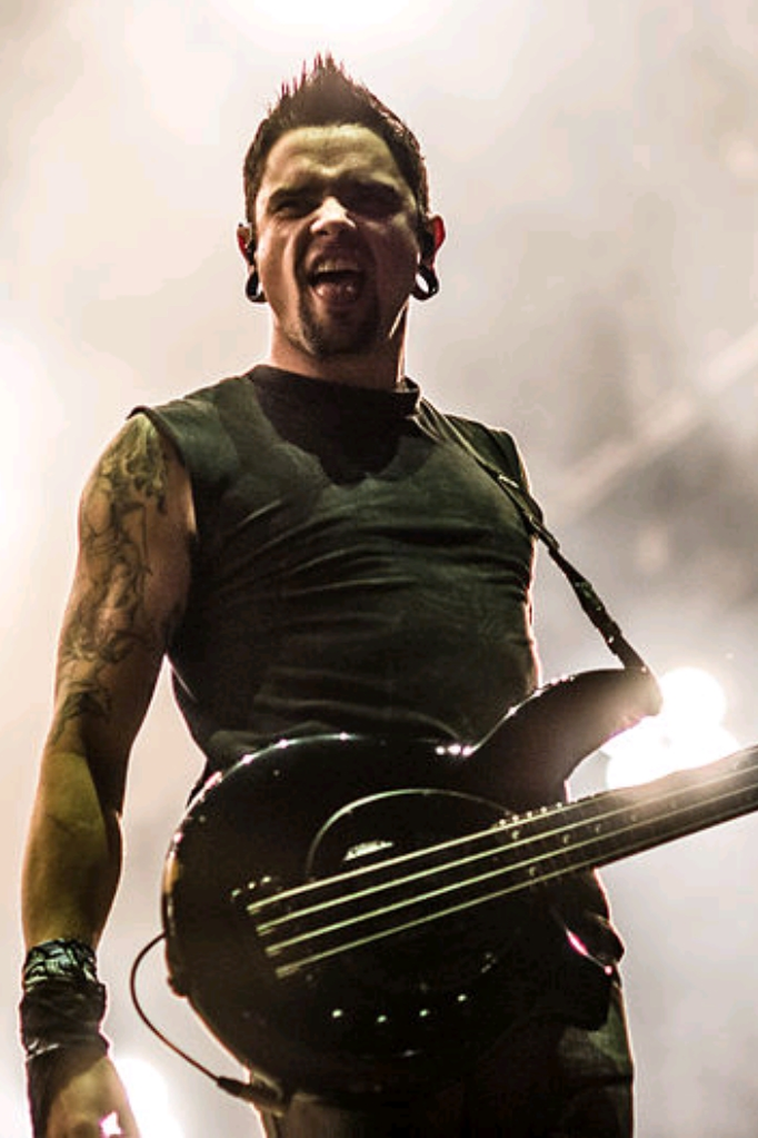 Jason "Jay" James, bassist of Bullet for My Valentine band. Ursynalia 2013 Warsaw Student Festival, Poland. This photo was taken with Sony SLT-A77 camera, thanks to cooperation with Sony Poland.You can see all photographs in category Taken with Sony SLT-A77. English | polski | +/−